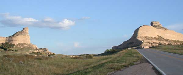 Mitchell Pass in Scotts Bluff National Monument near Gering, Nebraska (view looking eastward) (taken Oct. 4, 2004)